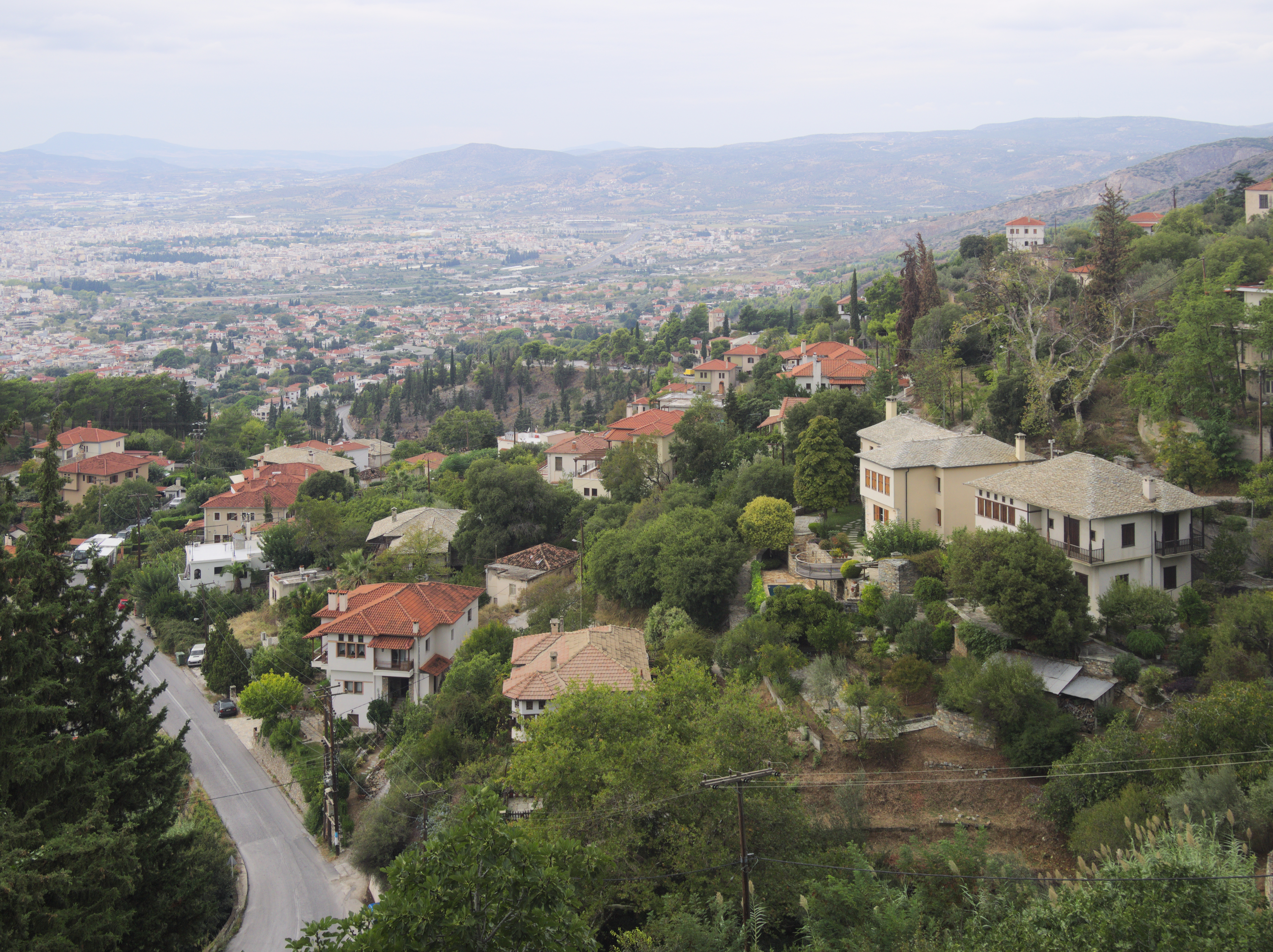 View from Ano Volos towards west, where is visible Nea Ionia.